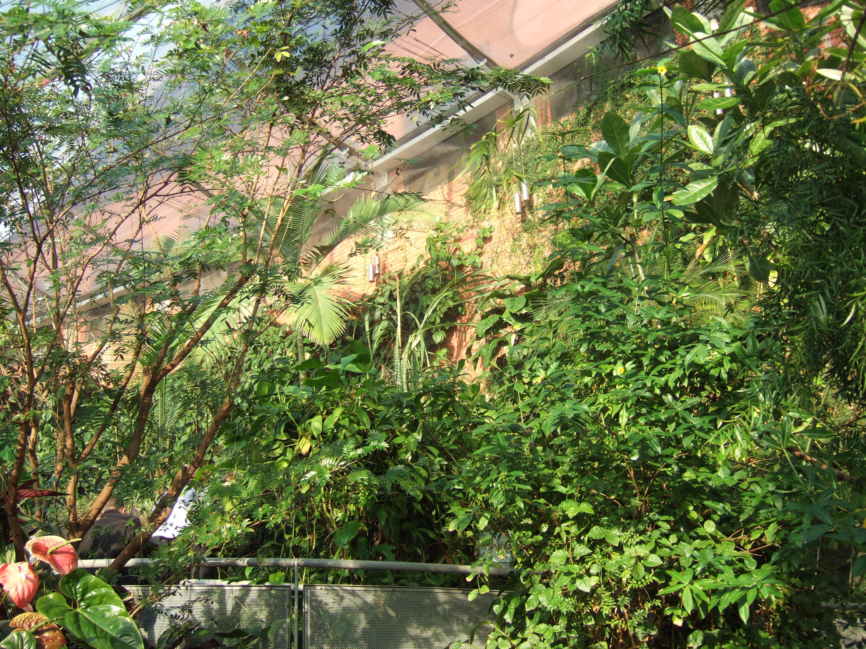 The now-closed Wildwalk-At-Bristol, Bristol, UK